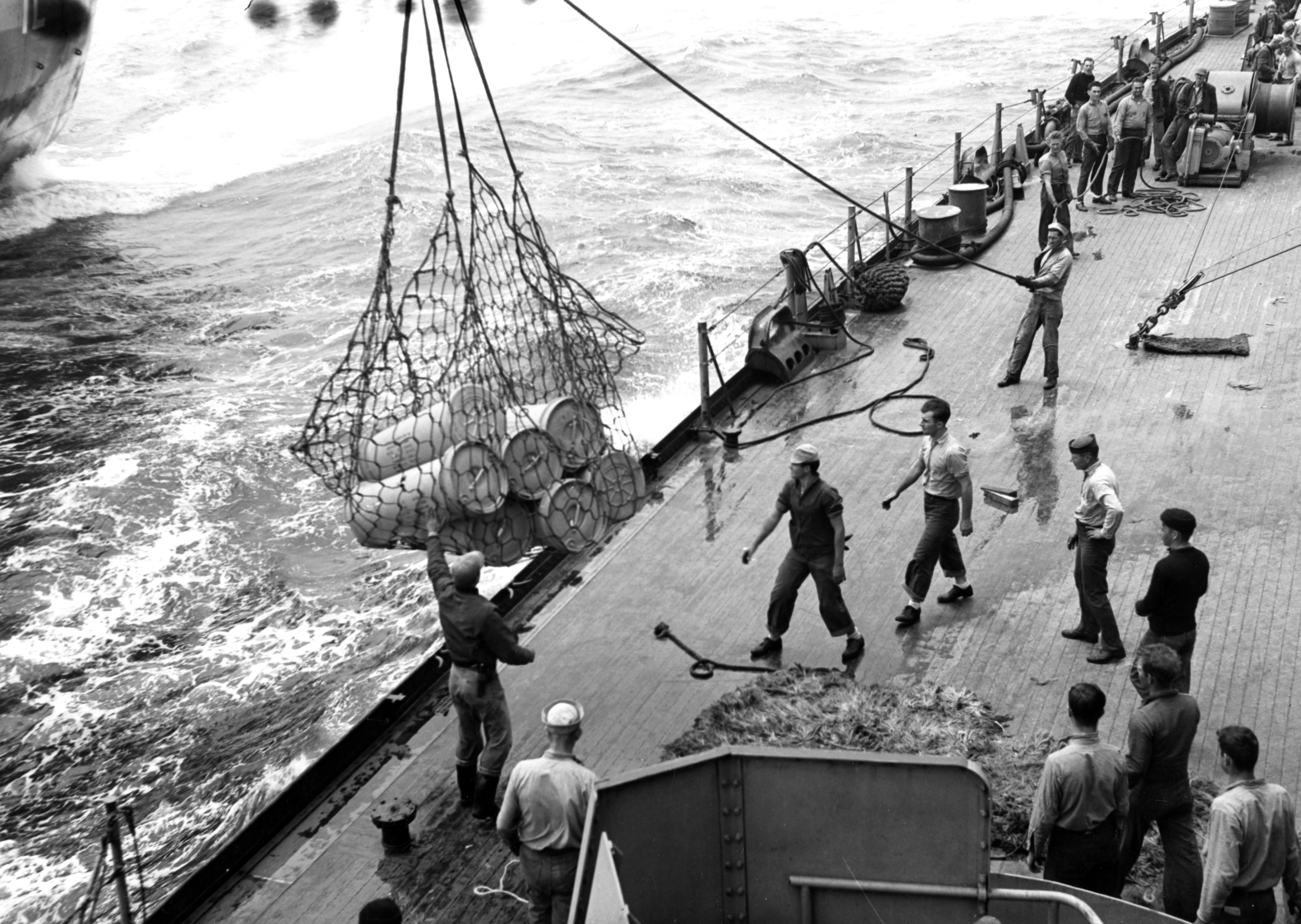 Receives powder for her 16-inch guns, via highline from USS Wrangell (AE-12), during the Okinawa operation, 8 April 1945. Official U.S. Navy Photograph, now in the collections of the National Archives.